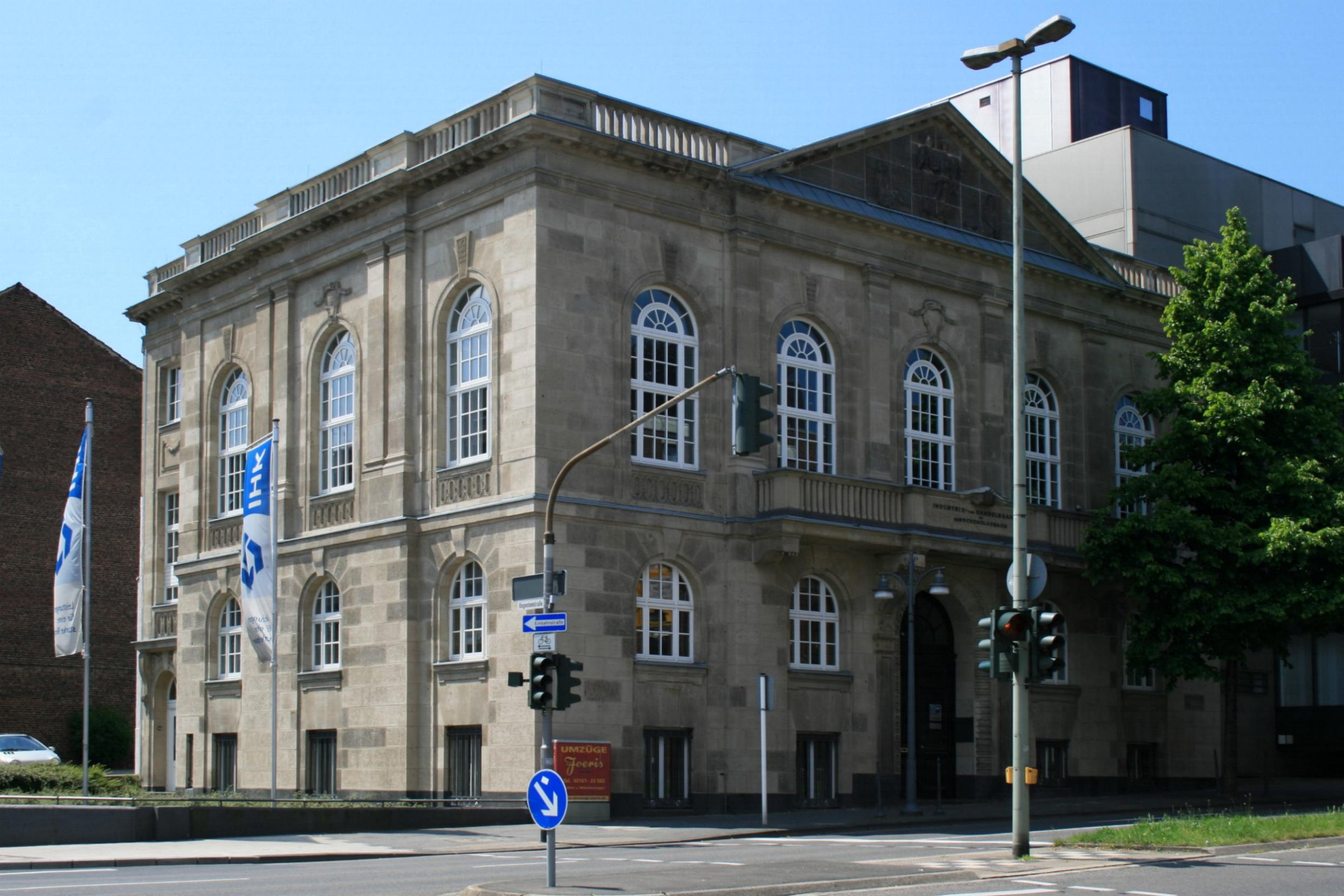 Cultural heritage monument No. B 112 in Mönchengladbach